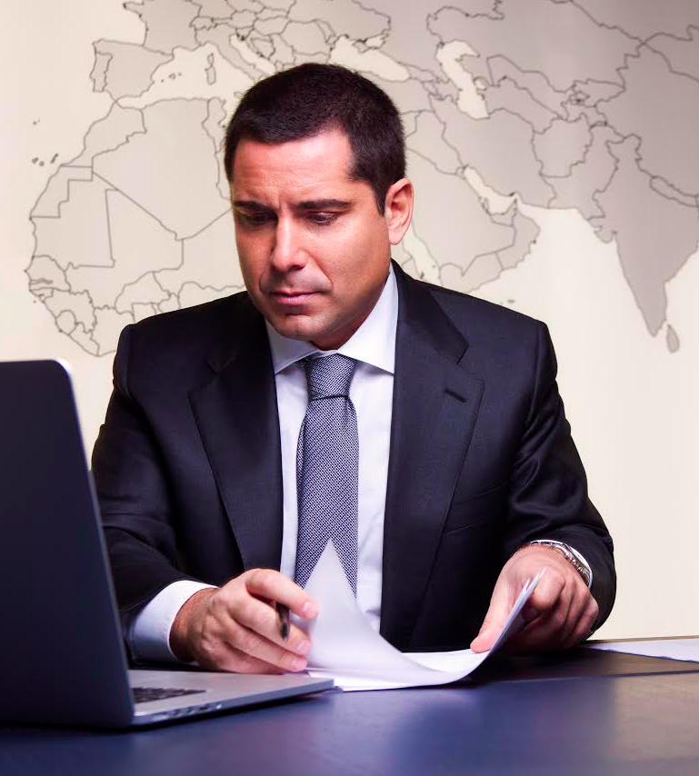 Riccardo Silva, President of MP & Silva